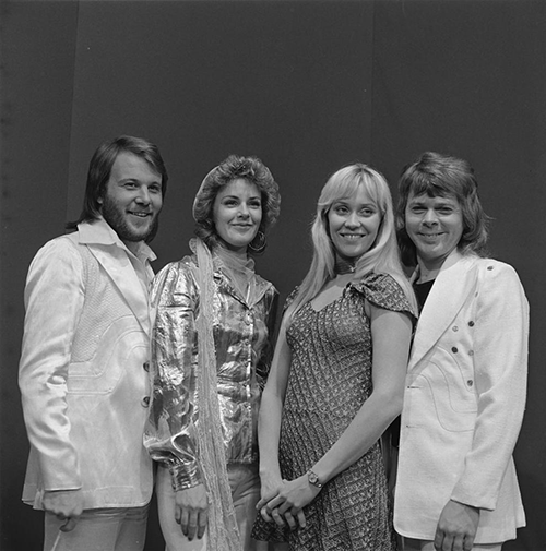 ABBA in AVRO's TopPop (Dutch television show) in 1974